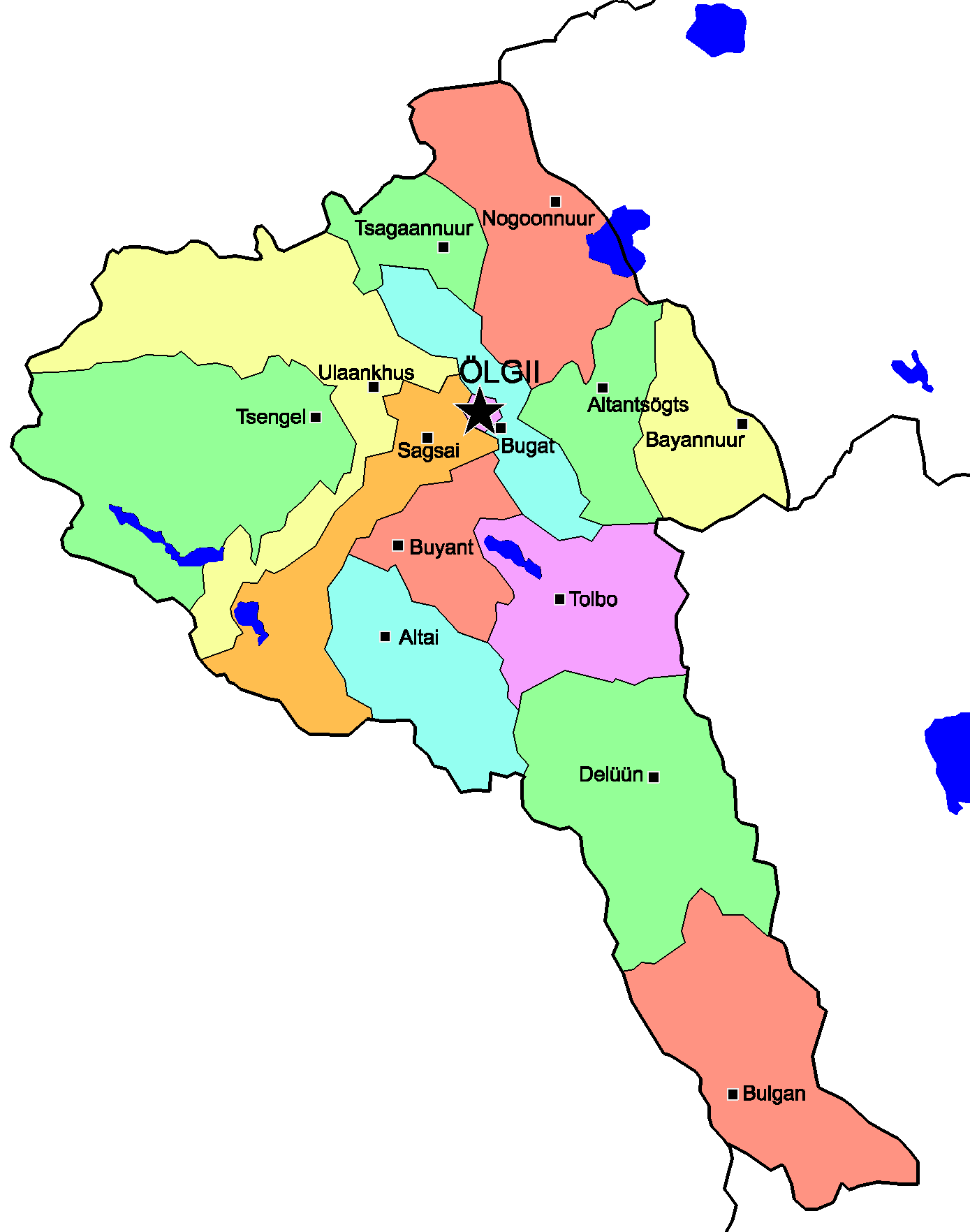 Map of the Bayan Olgii aimag with the sums